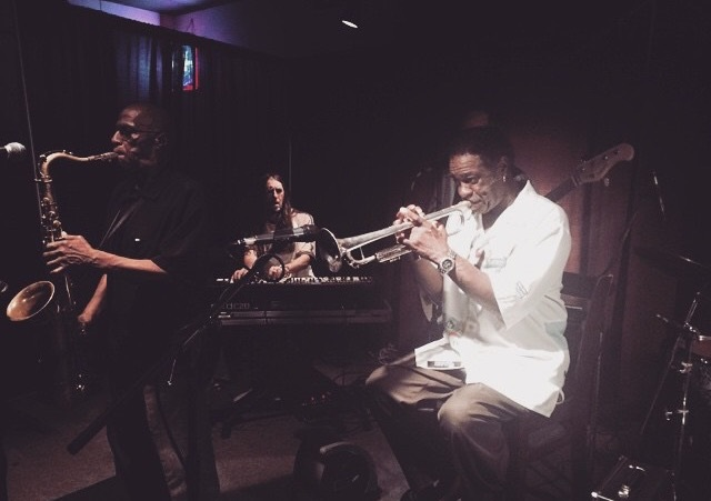 Ben Cauley with Tommy Lee Williams at Neil's Music Room in Memphis in 2015